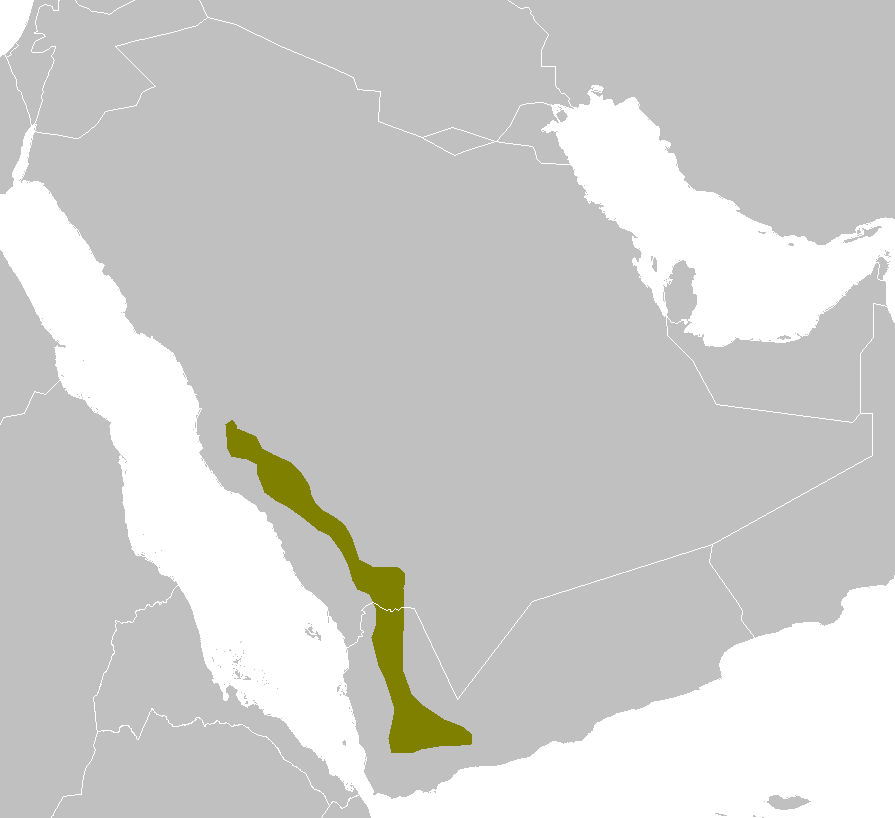 Southwestern Arabian montane woodlands ecoregion map